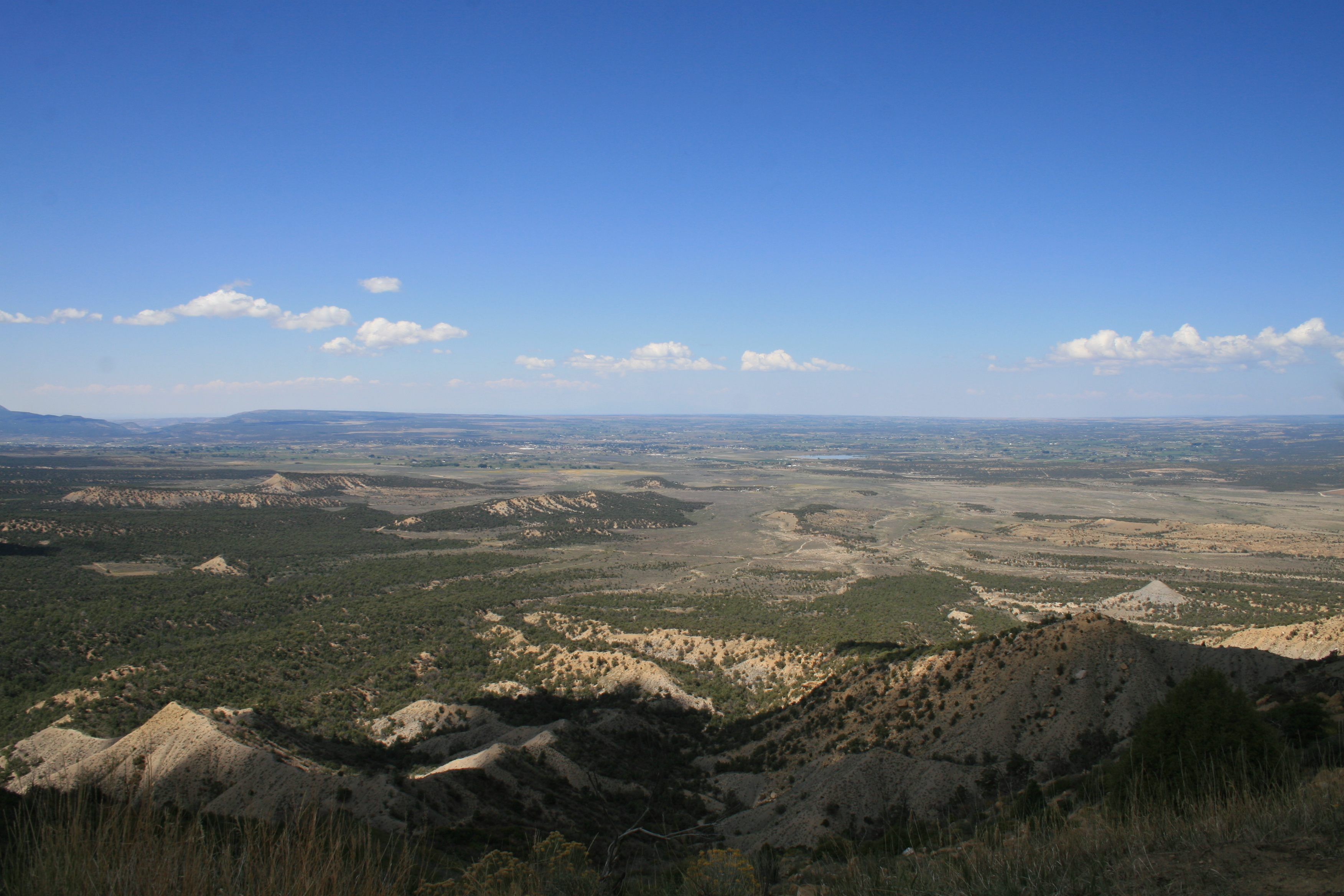 Mesa Verde National Park, Colorado View from the Montezuma Valley Overlook